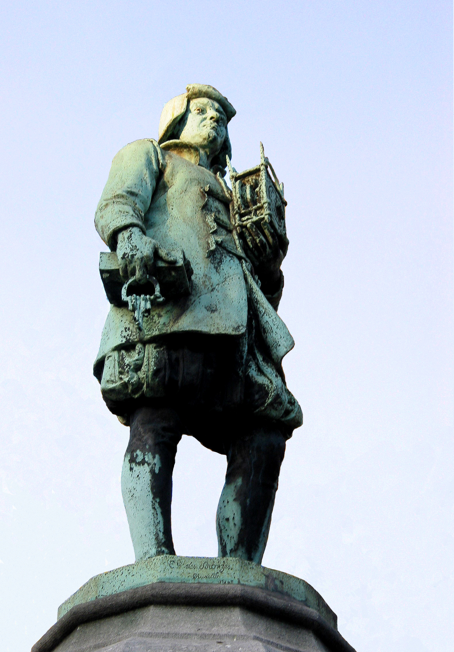 Brussels (Belgium), Square du Petit Sablon - Statue of the clockmaker performed by the sculptor Jean Cuypers (XIXth century).